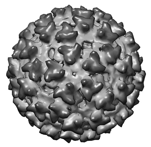 cryo-electron microscopy of Sindbis-liposome complex